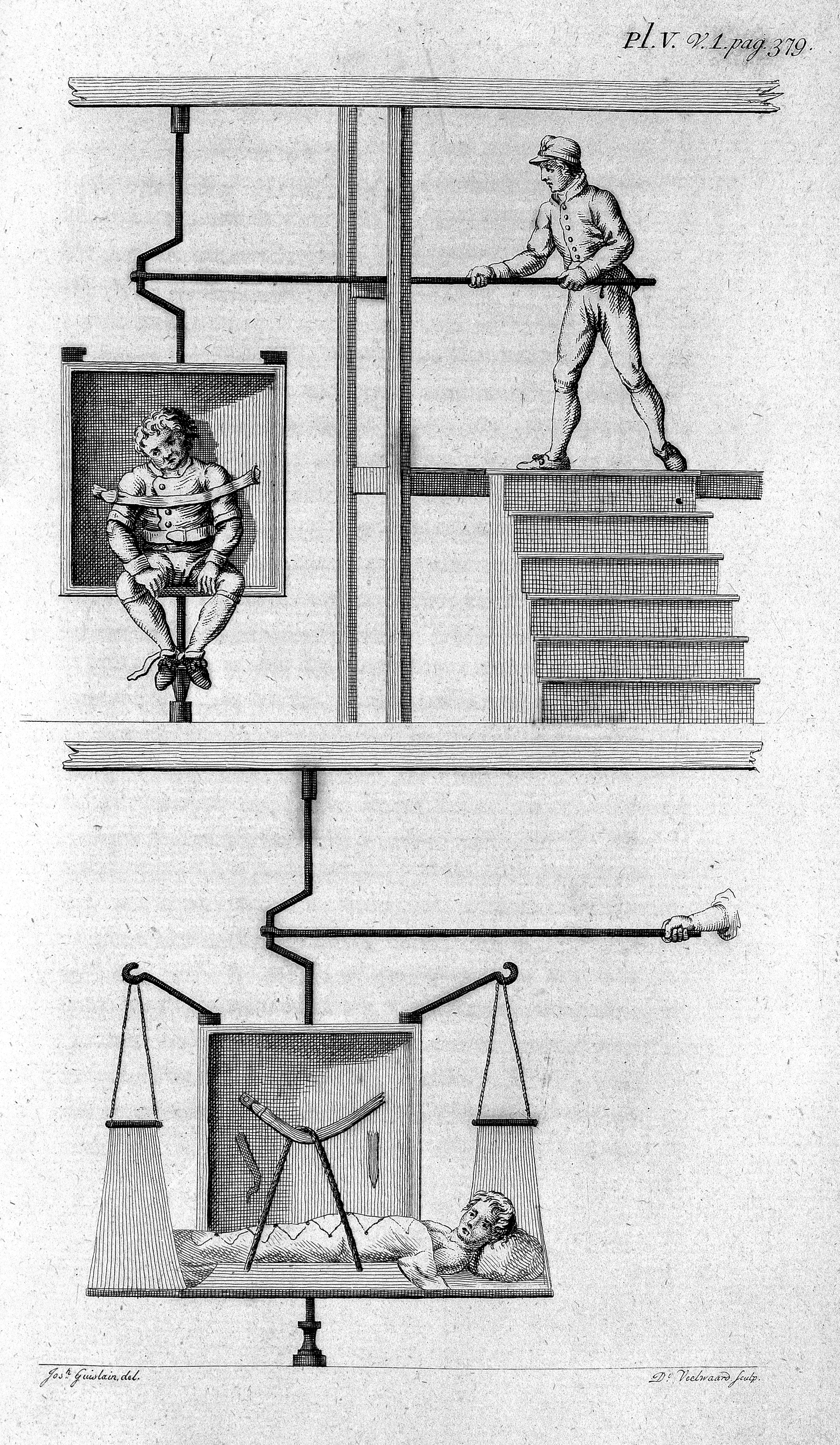 Rotatory machines Rare Books Keywords: neurology and psychiatry; Joseph Guislain; Hallaran